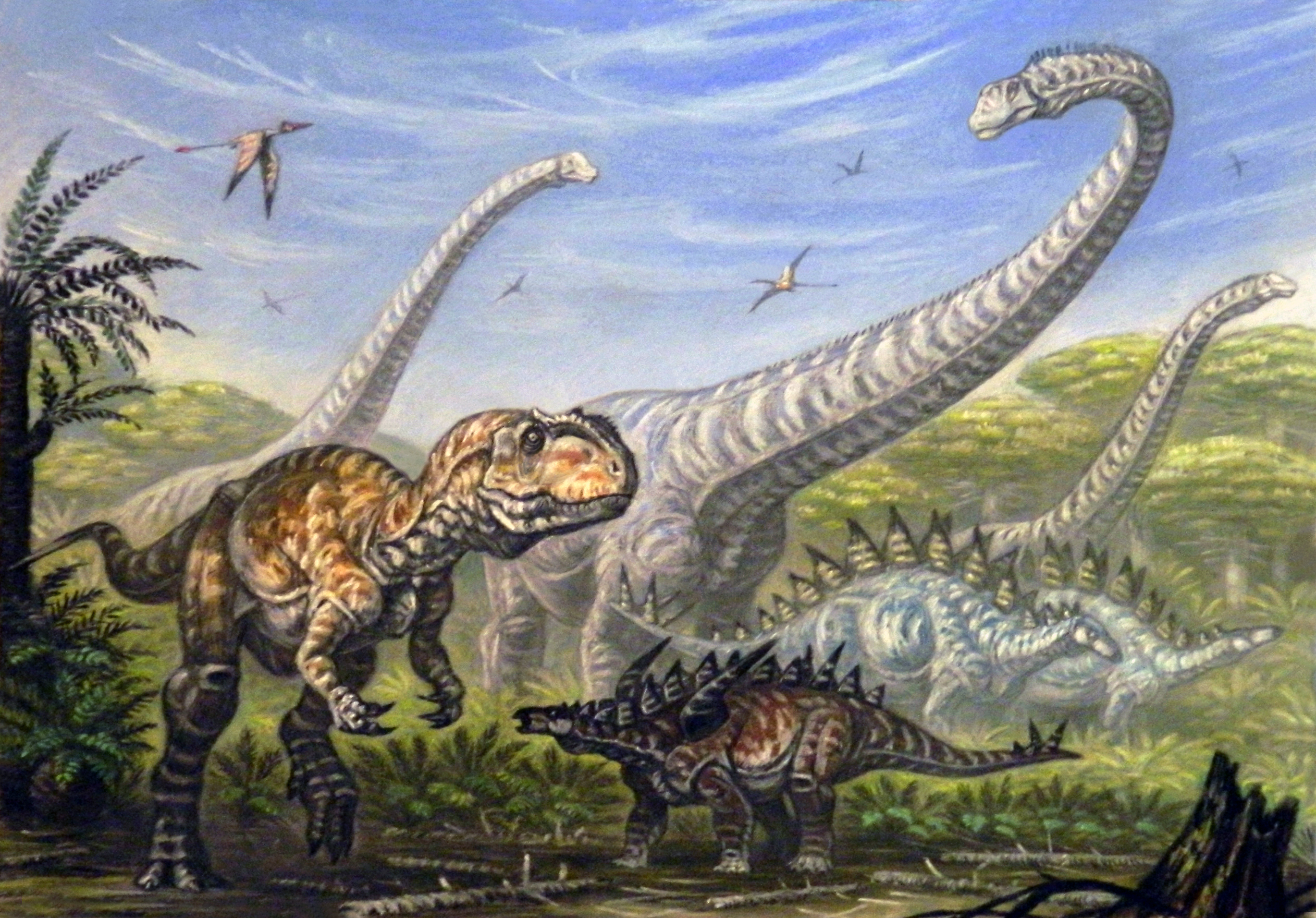 Yangchuanosaurus (Left), Mamenchisaurus (Centre Background), Tuojiangosaurus (Right) and Gigantspinosaurus (Bottom Foreground).